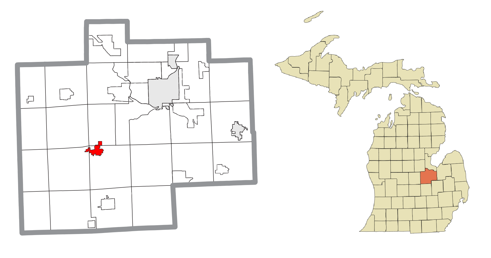 St. Charles, MI